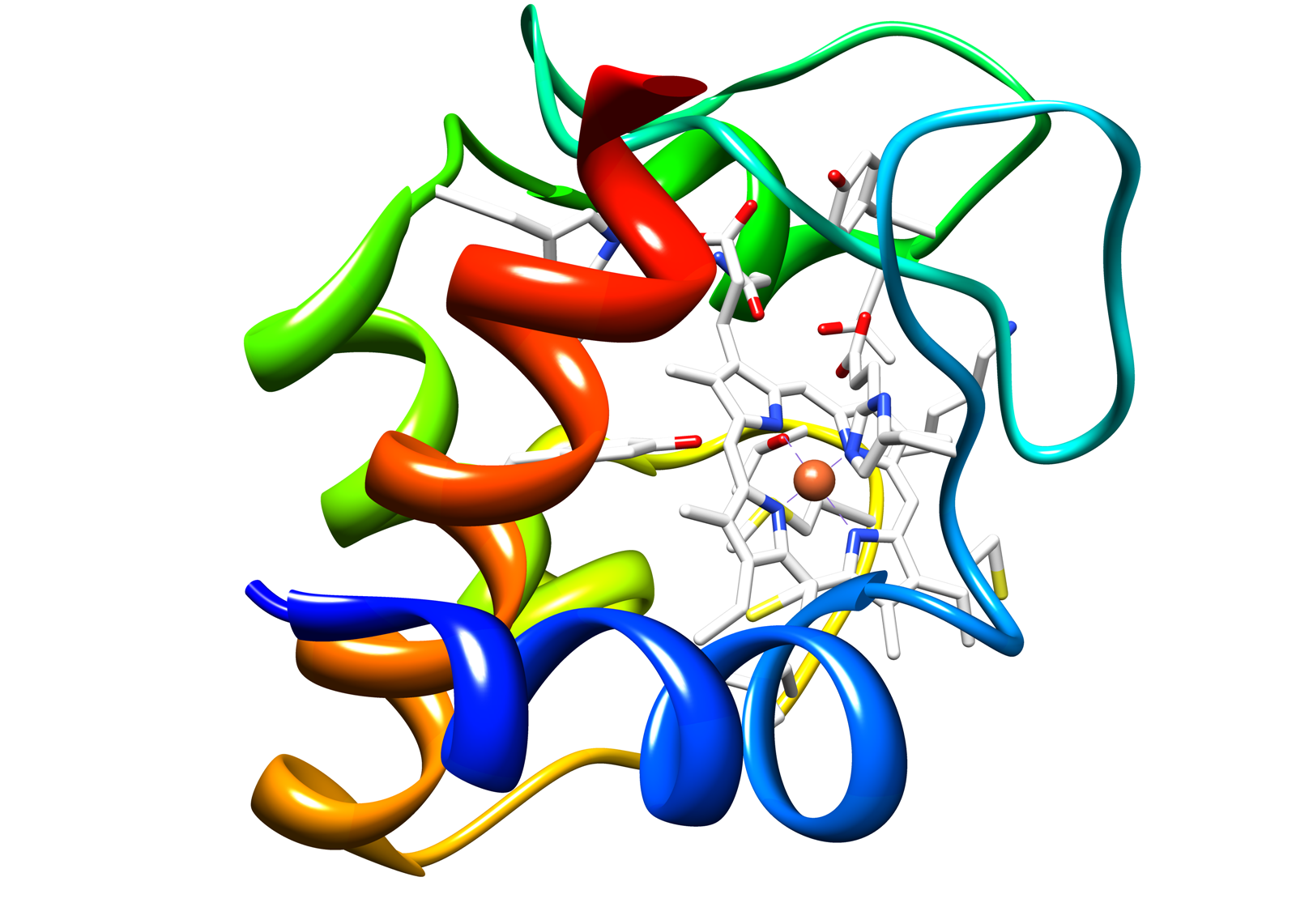 Structure of horse heart cytochrome c (PDB:1HRC)